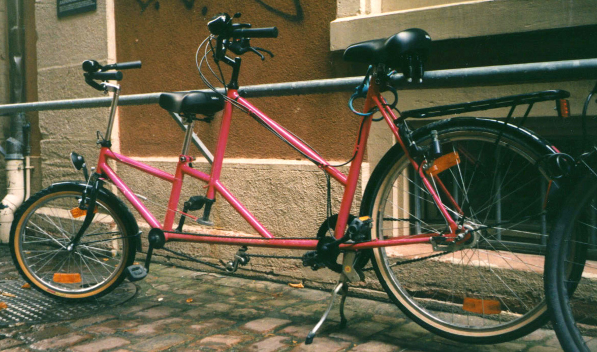 Tandem, bei dem sowohl Kapitän als auch Stoker lenken können